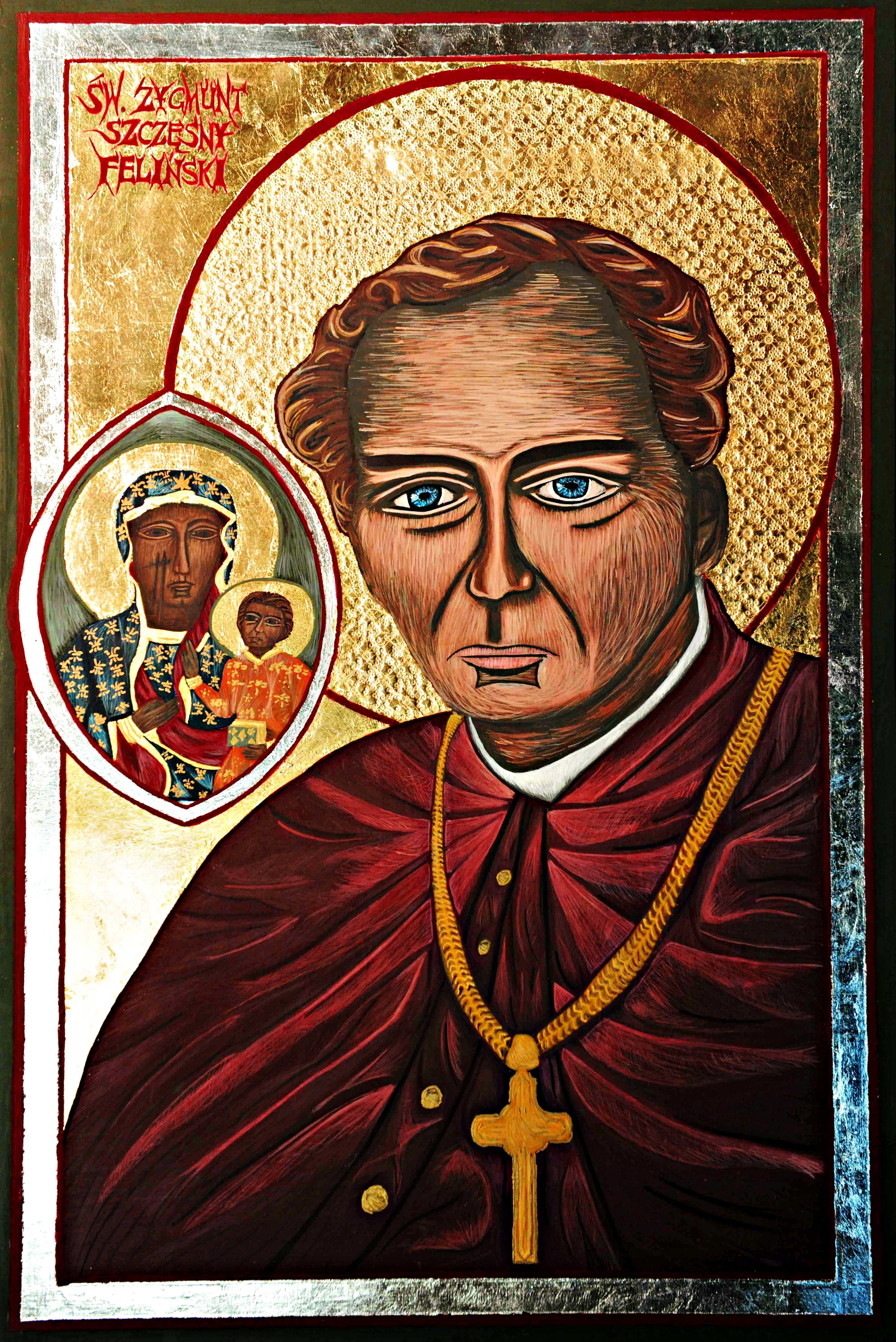 Photo of Icon of St. Zygmunt Felinski by Michael Costik